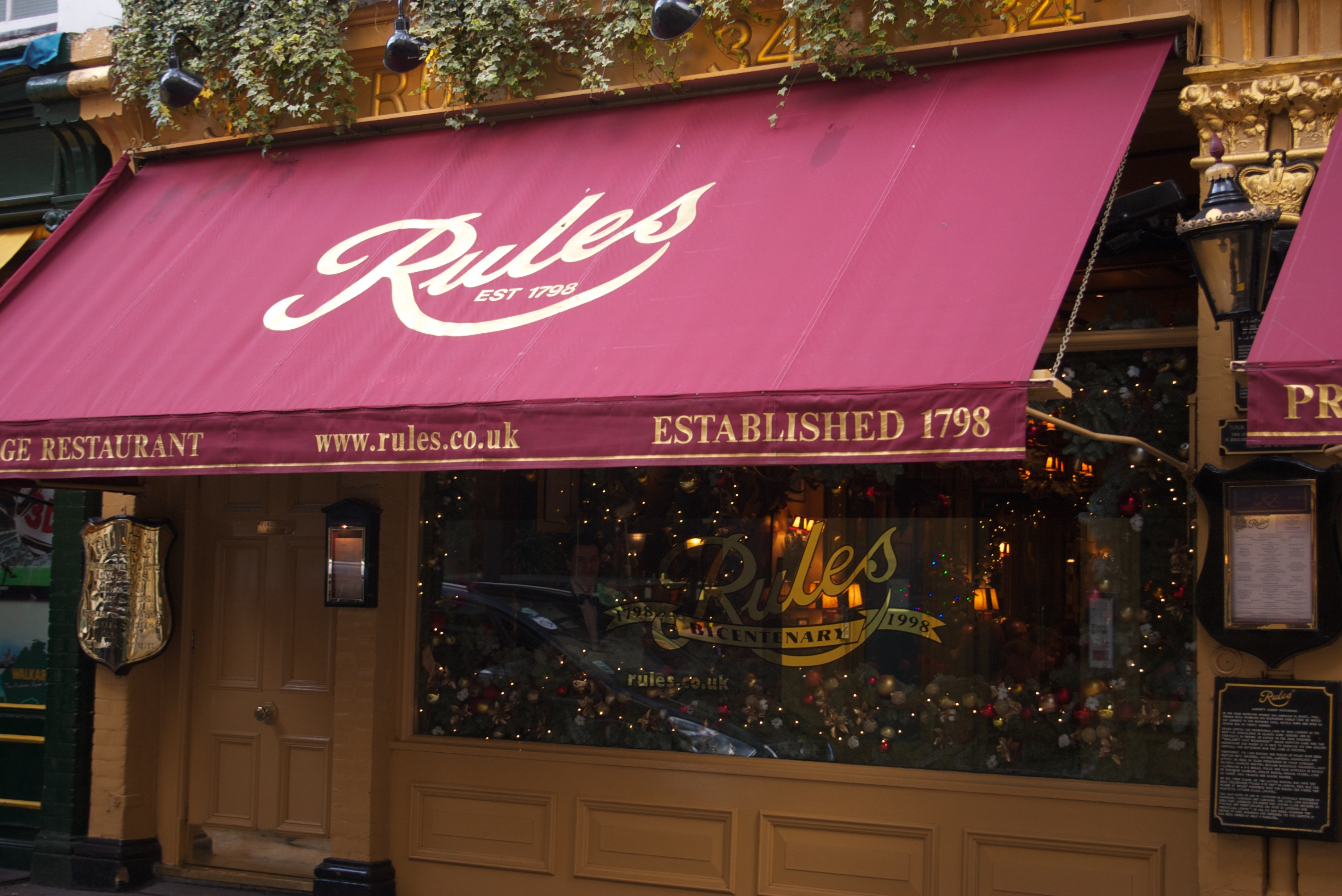 Rules, the "oldest restaurant in London", in Maiden Lane.